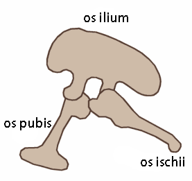 Dutch version of Saurischia pelvis structure (left side).